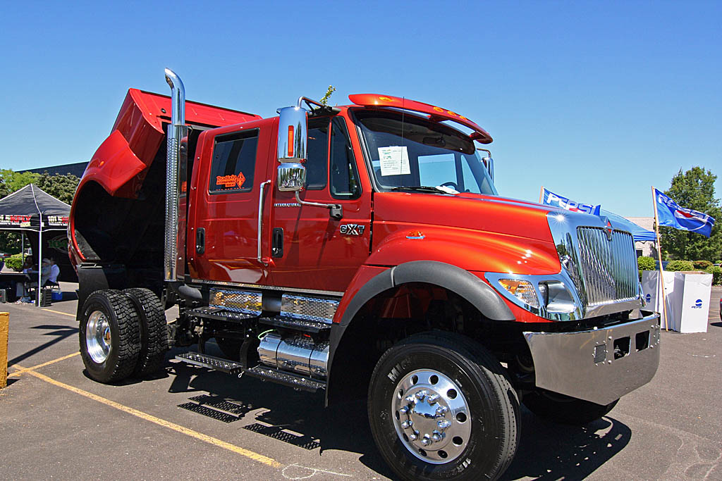 Photograph of an International CXT pickup truck. This truck has the optional dump bed in the raised position.